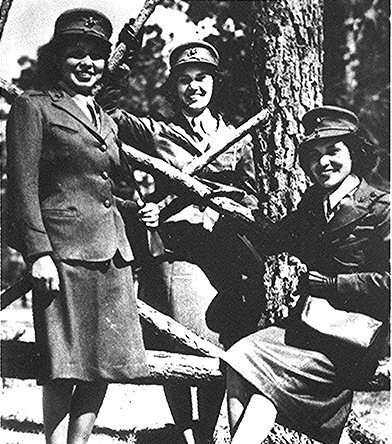 Three Marine Corps women reservists, Camp Lejeune, N.C. Left to right: Minnie Spotted Wolf (Blackfoot), Celia Mix (Potawatomi), and Viola Eastman (Chippewa). U.S. Marine Corps photograph, October 16, 1943. American Indian Select List number 194.